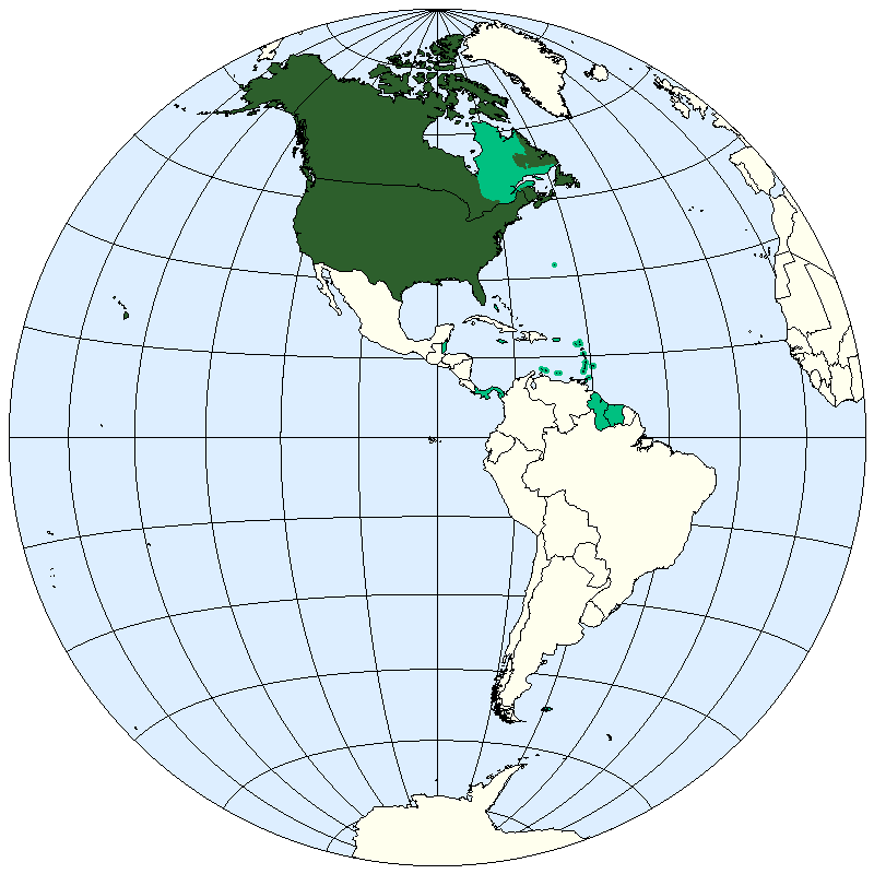 Western hemisphere map: Anglo-America Lambert azimuthal projection. Adapted by E Pluribus Anthony from original image created by Marvin01 (Sean Baker) (original data source)